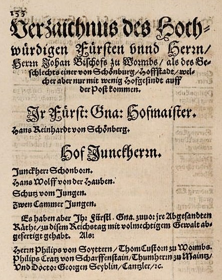 Die Teilnehmer des Fürstbistums Worms am Augsburger Reichstag von 1582